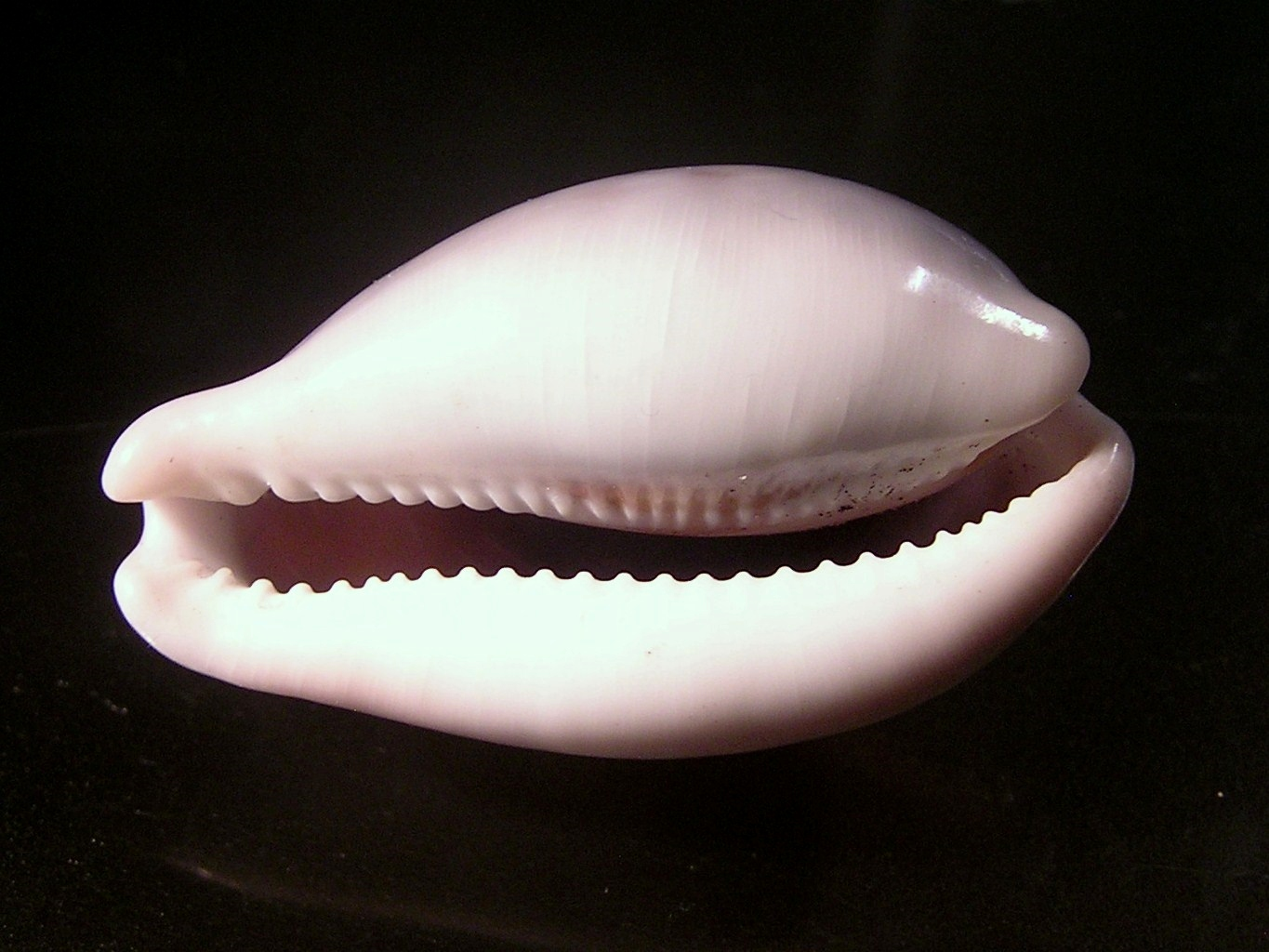 Neobernaya spadicea Swainson, 1823 , a cowry from the family Cypraeidae; California